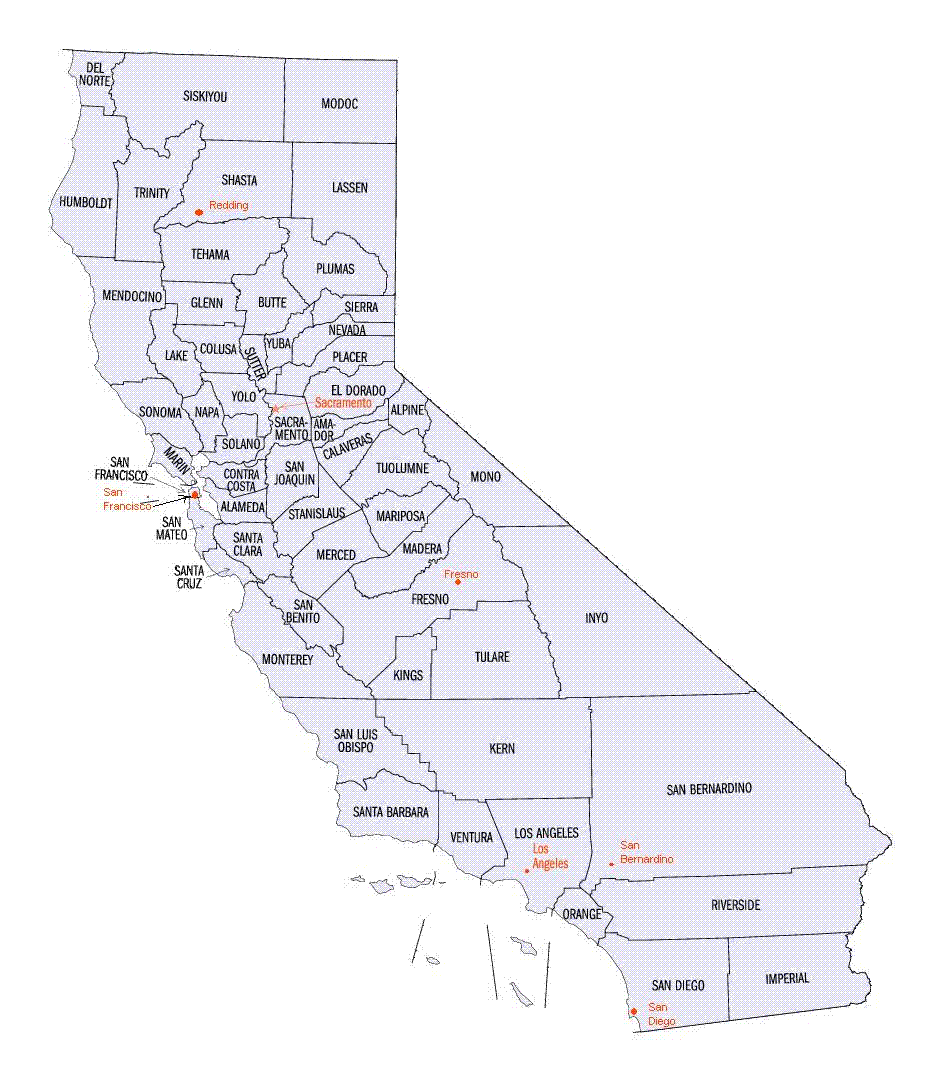 Map of the counties of California